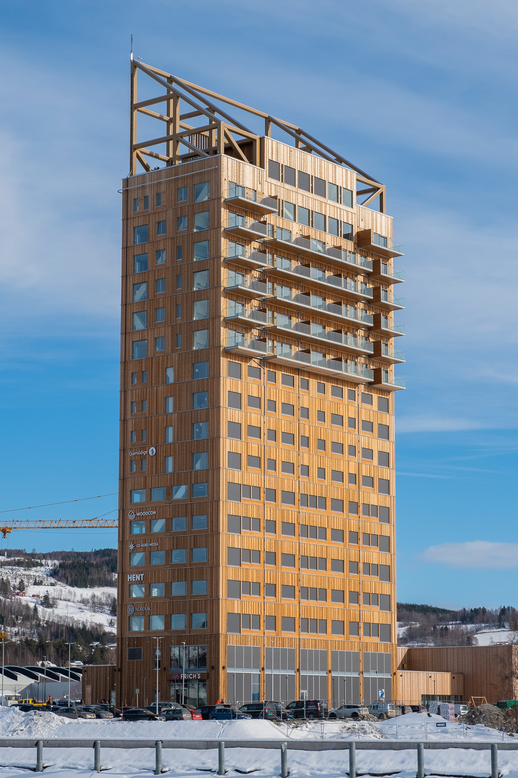 Mjøstårnet at its opening in March 2019.